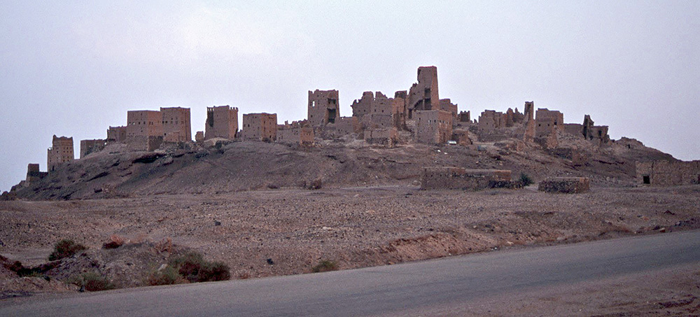 The widely abandoned part of the town Marib